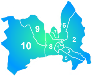 Map of administrative division of Skopje